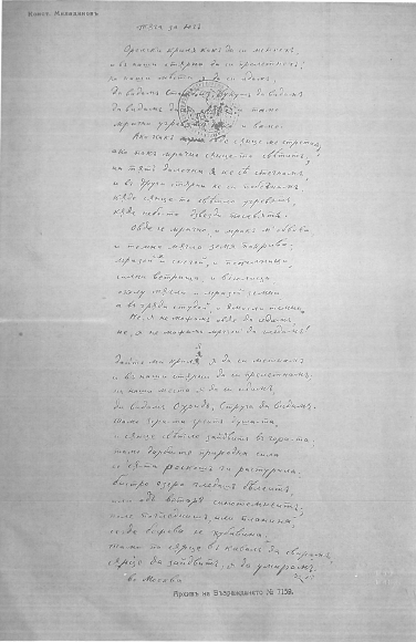 The original of the poem Taga za Yug (Bulgarian: Тъга за юг, in English "Longing for the South") of the Bulgarian poet Konstantin Miladinov (1830–1862).